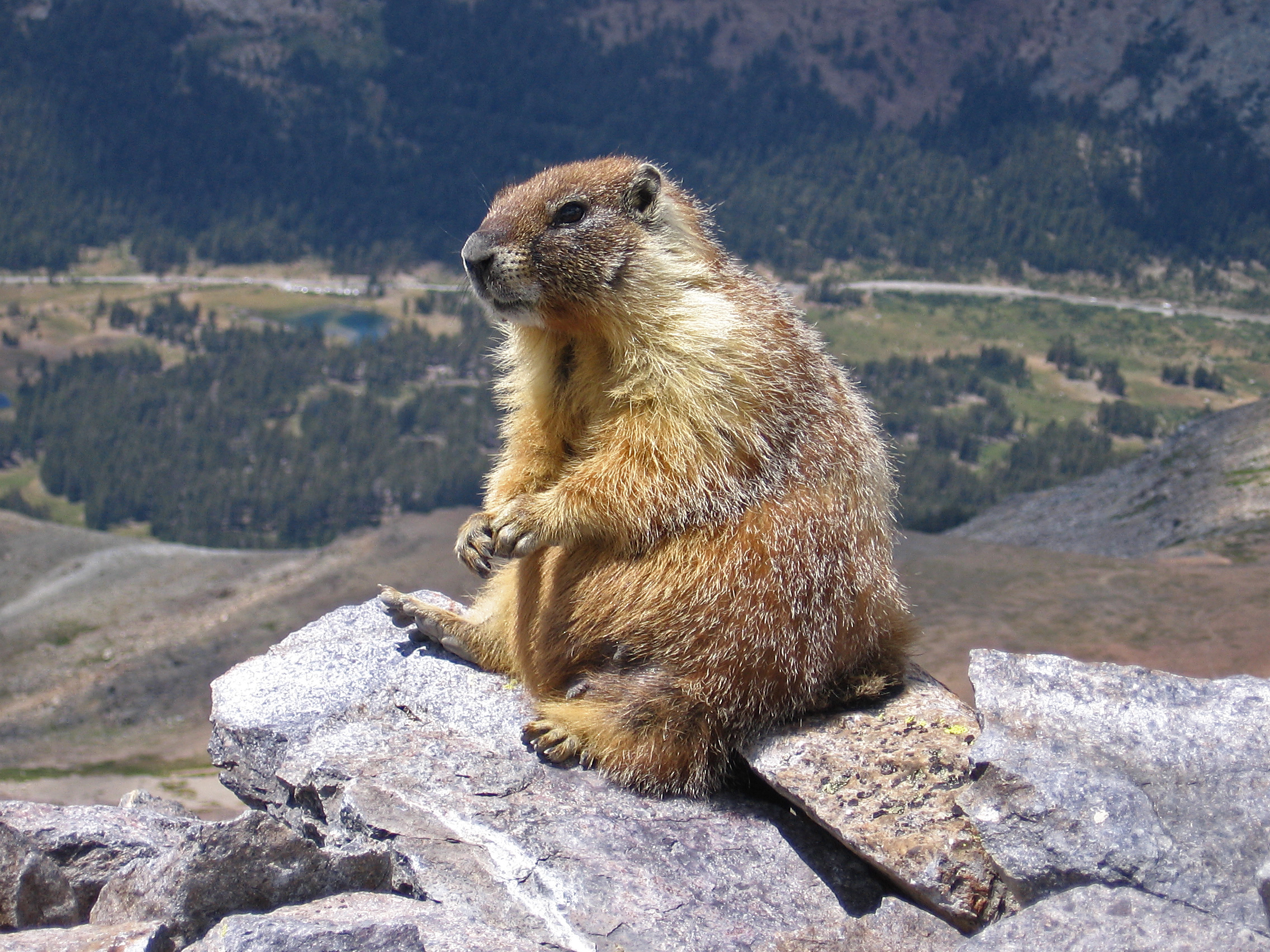 A marmot seen on top of Mount Dana, Yosemite, CA, USA. The road in the background is Tioga Pass Road. (Edited version of original: sharpened and curve adjustment by jjron).